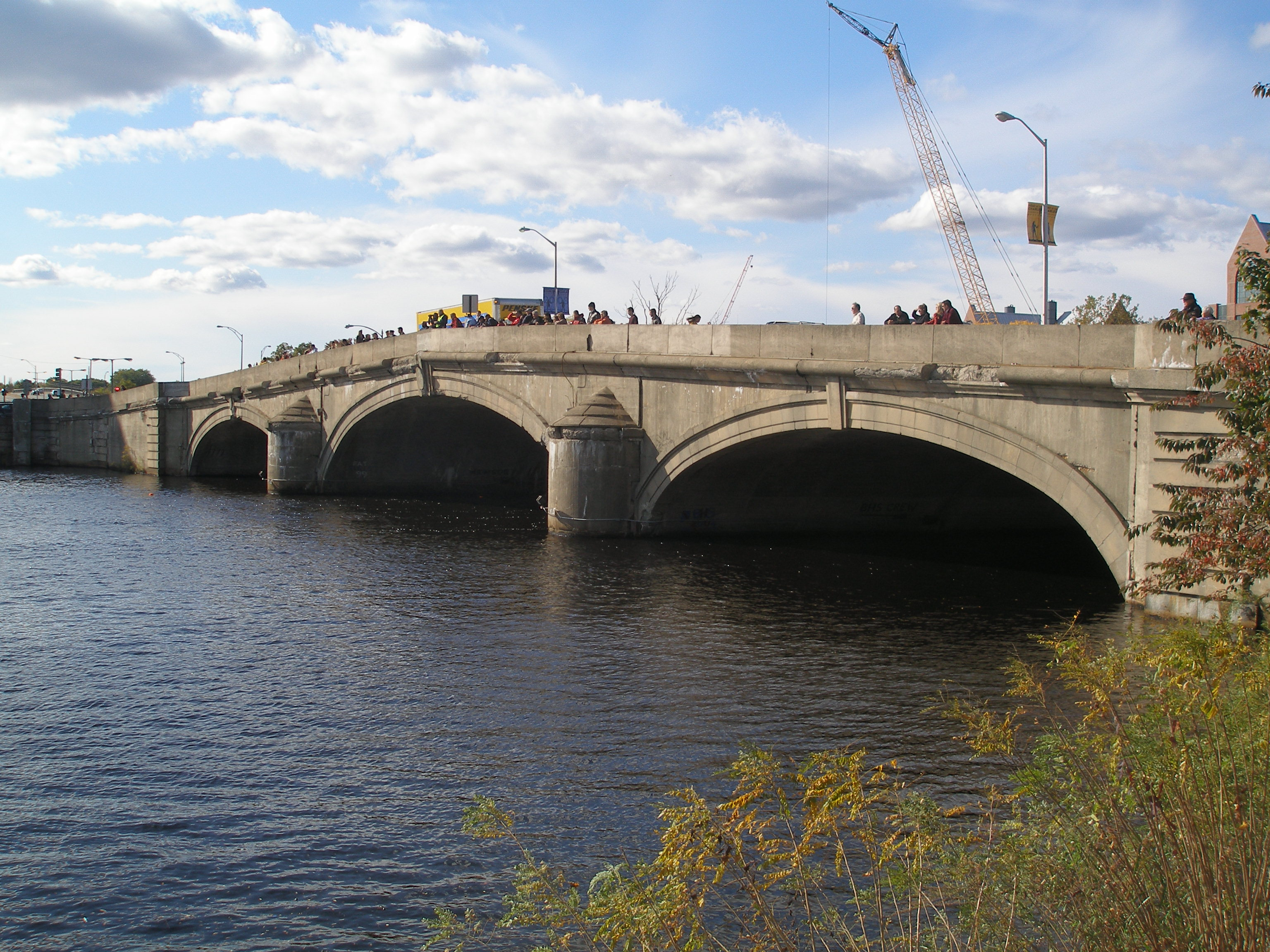 The River Street Bridge in Cambridge, MA and Allston, Boston, MA, in October 2008.